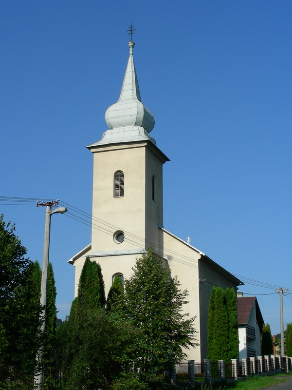 The church in Ruská Voľa nad Popradom